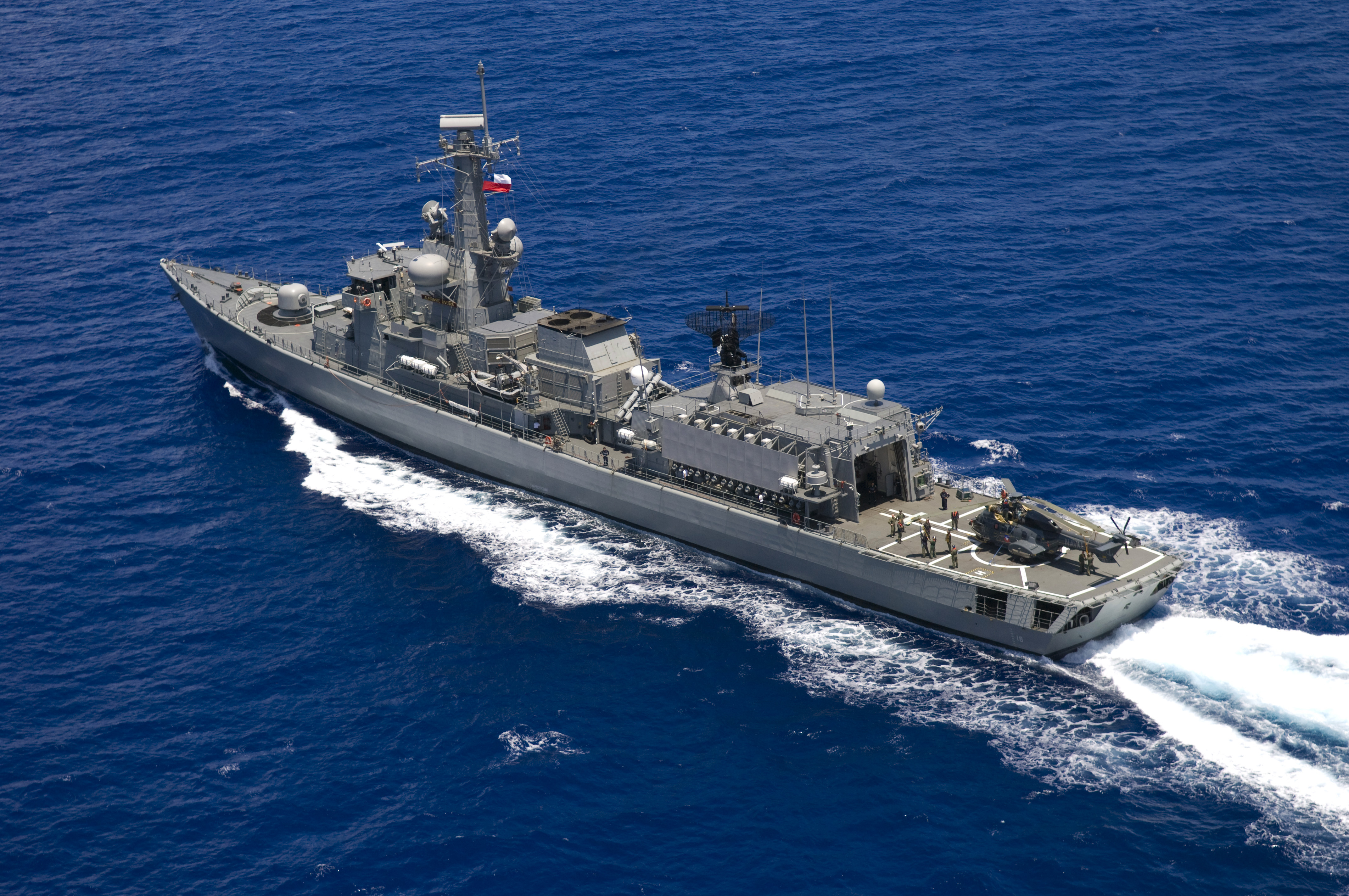 080714-N-7949W-003 PACIFIC OCEAN The Chilean frigate CS Riveros (FF 18) steams in the in the operating area of Rim of the Pacific (RIMPAC) 2008. RIMPAC is the world's largest multinational exercise scheduled biennially by the U.S. Pacific Fleet. Participants include the United States, Australia, Canada, Chile, Japan, the Netherlands, Peru, Republic of Korea, Singapore, and the United Kingdom.